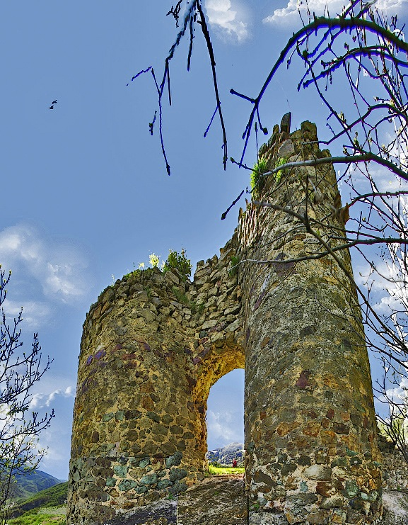 Handaberd fortresss. 13th—14th cc. Knaravan village see. Thomson J. Samuelian, Michael Edward Stone "Medieval Armenian culture"-1984 p48; Frédéric Macler "Revue des études arméniennes"1974 p.284